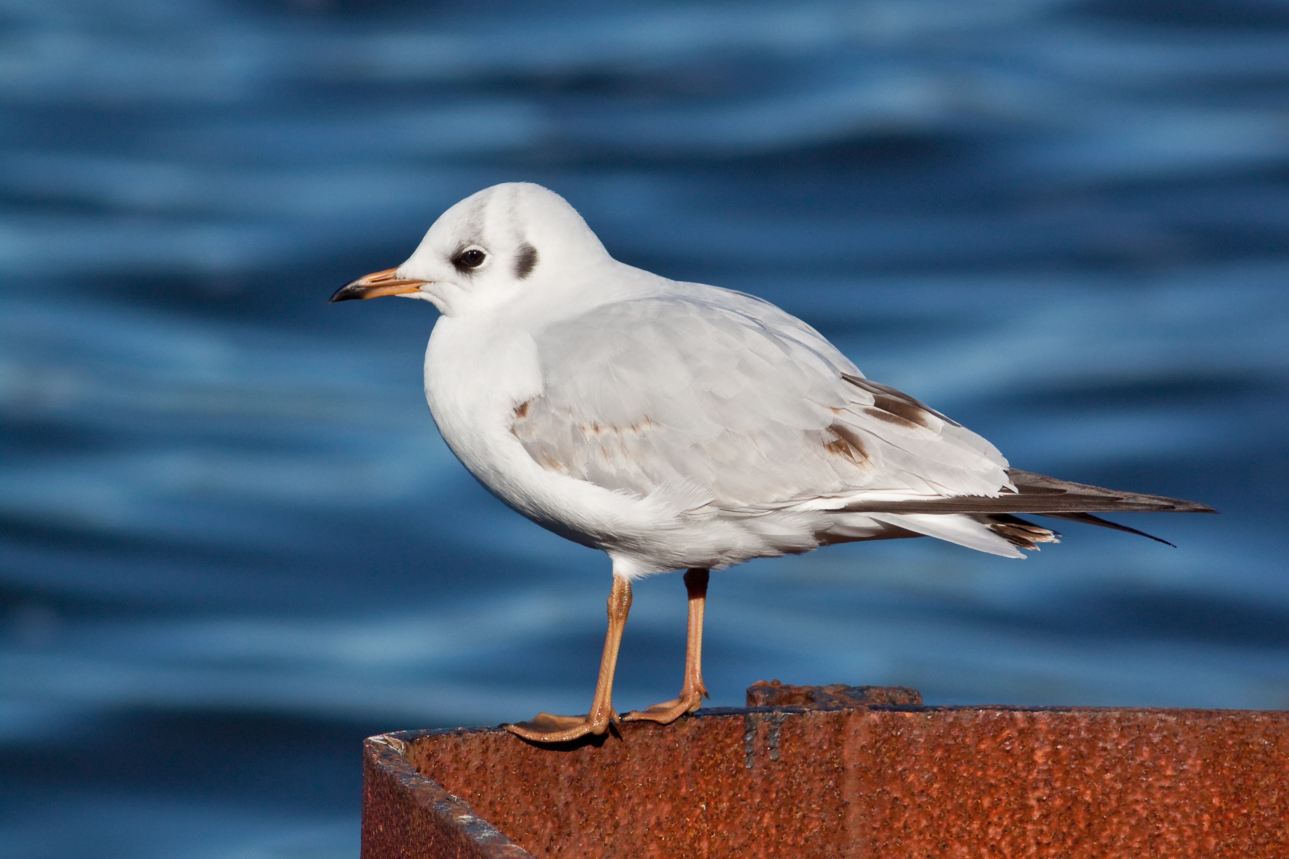 A side view of a black-headed gull (Larus ridibundus) in winter plumage, sitting on a steel pole of an old ferry pier in Rostock, Mecklenburg-Western Pomerania.